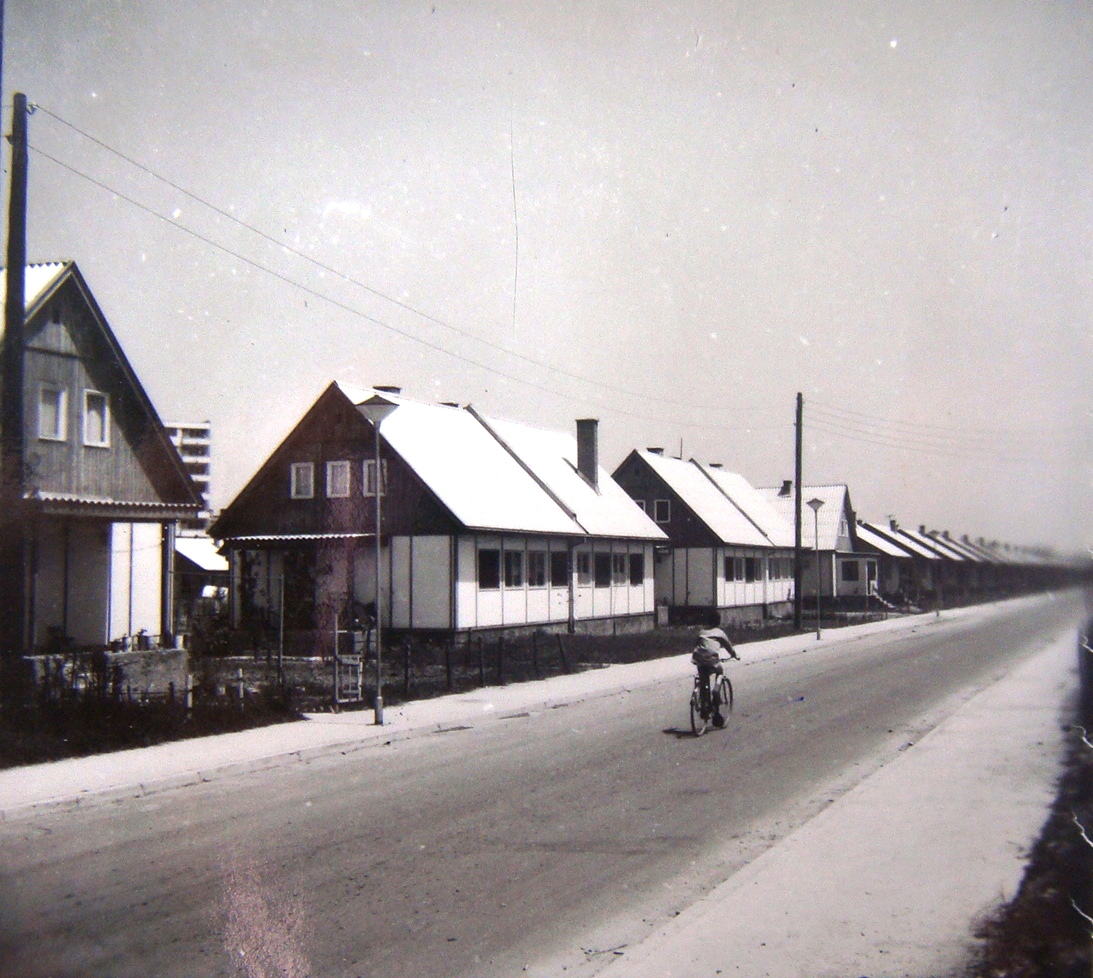 1963 Skopje earthquake: Residential buildings donated by Czechoslovakia, settlement Taftalidze This media file is produced by Wikipedian in Residence in Category:Wikipedian in Residence at DARM in 2016.